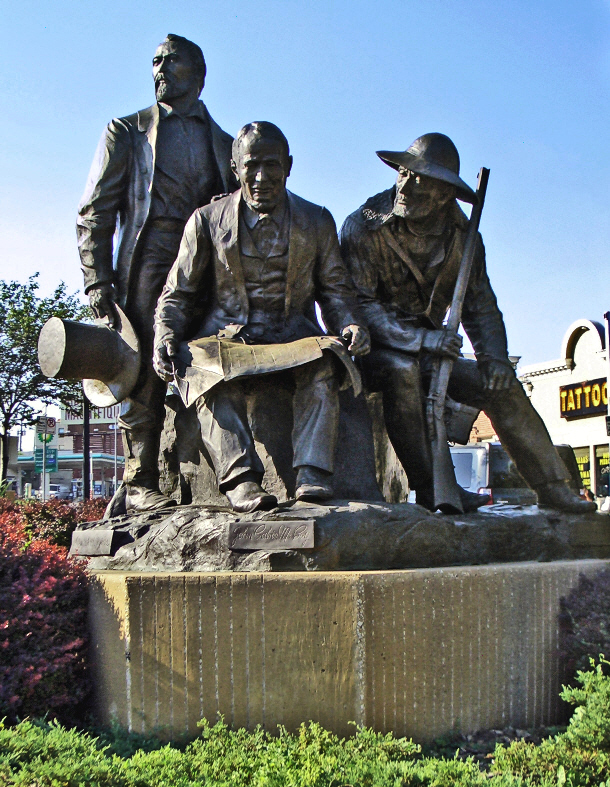 Pioneer Square Monument, Kansas City, Missouri. Located at Broadway & Westport Road, Kansas City, MO; the statues show features Pony Express founder Alexander Majors, Westport/Kansas City founder John Calvin McCoy and mountainman Jim Bridger.